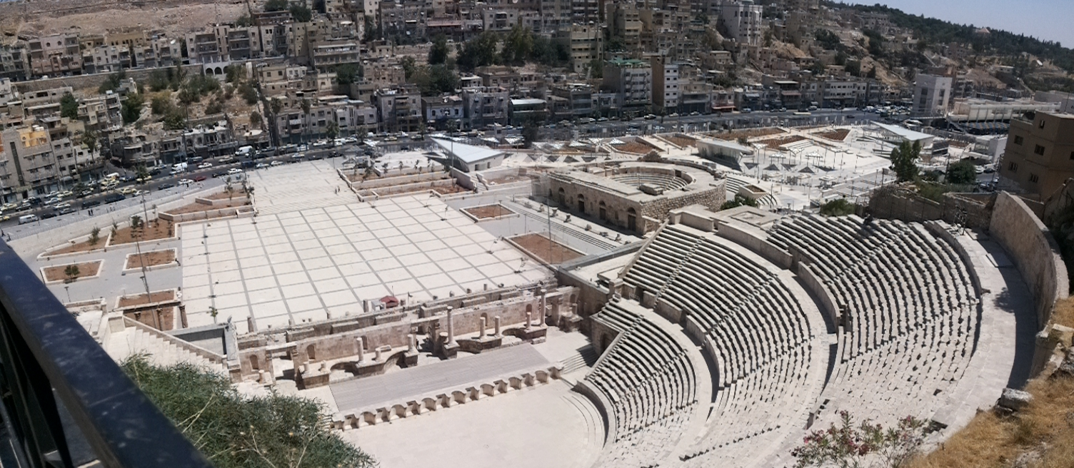 Roman Amphi theater at Down Town Amman. Picture is taken from The House of Jordanian Poetry.